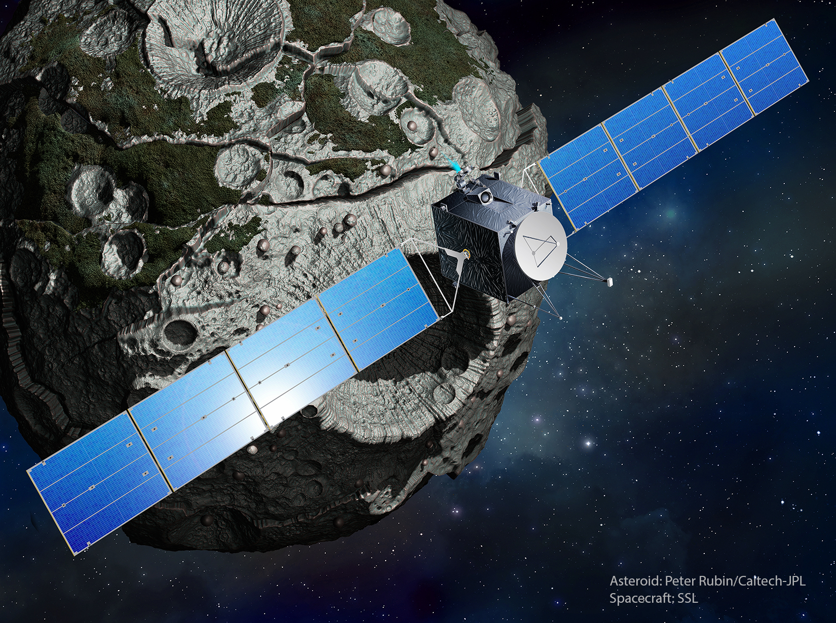 Artist's rendering of the Psyche mission